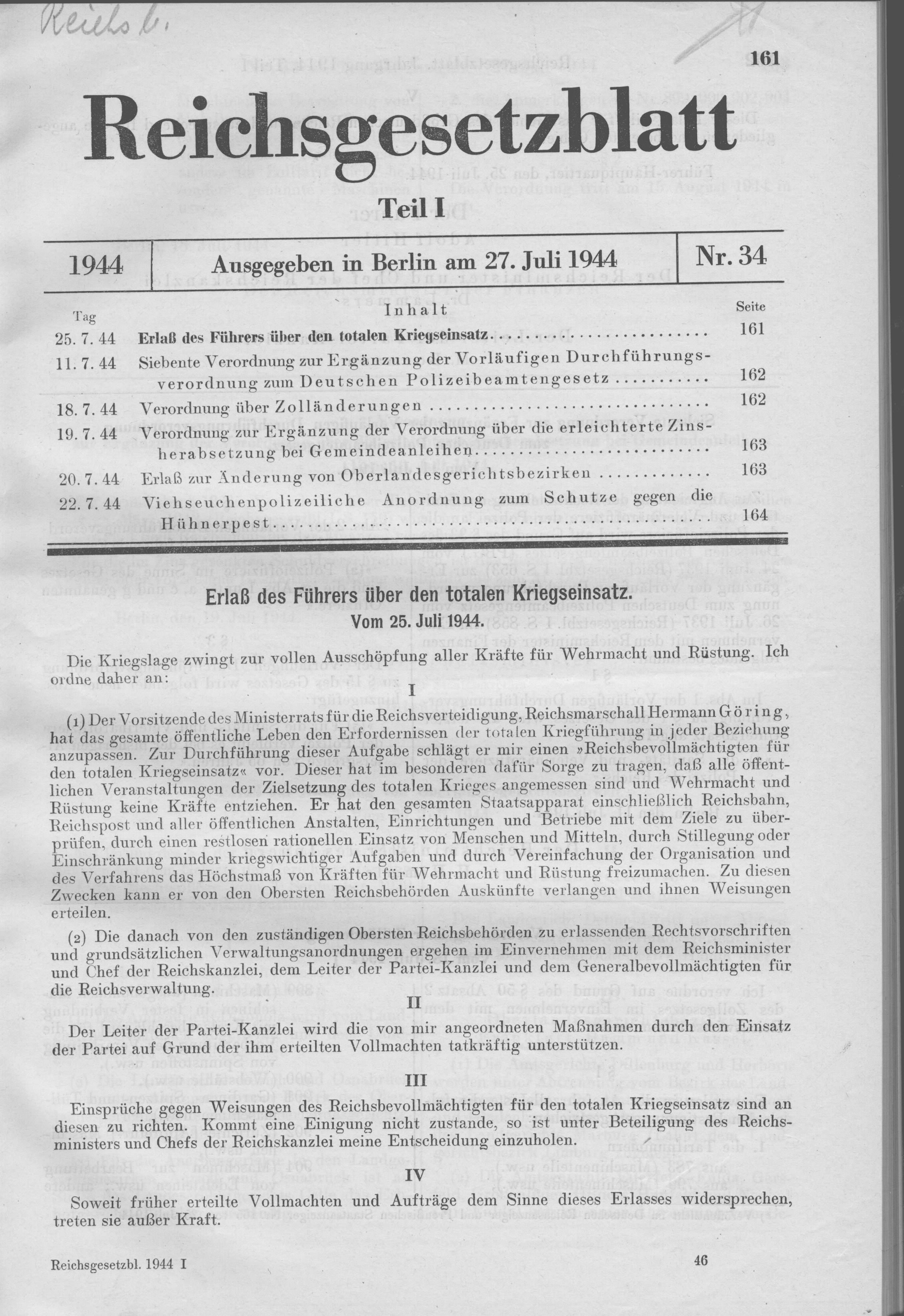 Scan from the Imperial Law Gazette of Germany, 1944, part 1